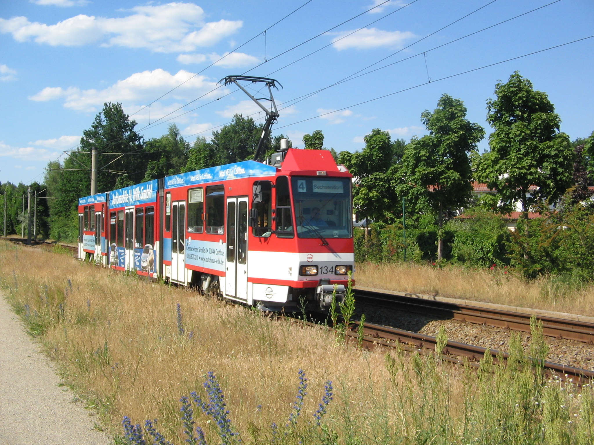 Streetcar, No. 134, at the trail to depot by stop Neu Schmellwitz.